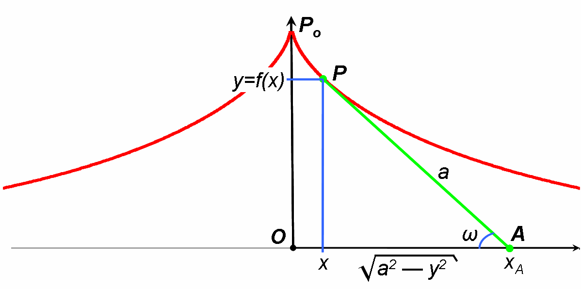 A diagram of the tractrix curve with calculation hints